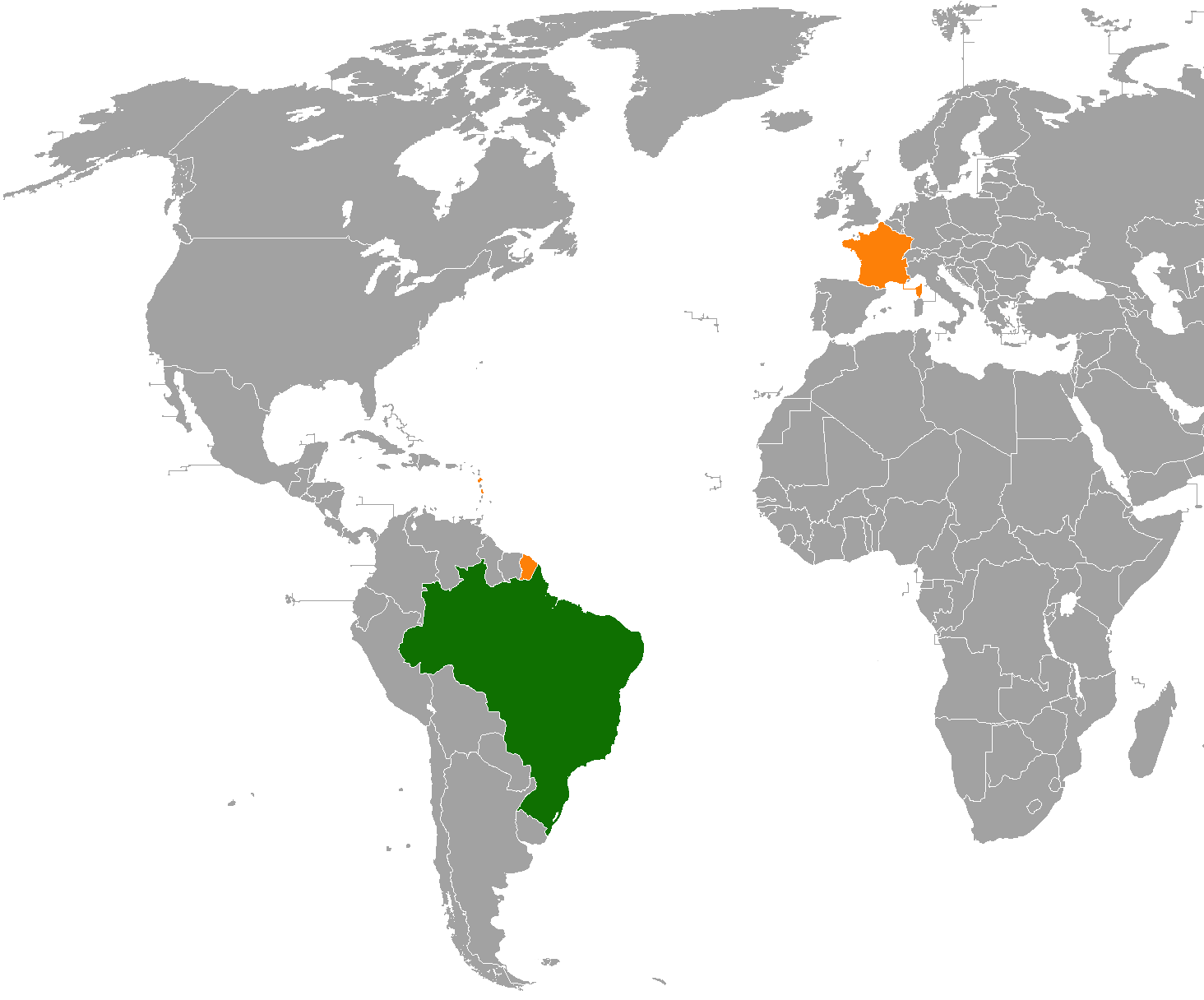 World map: Brazil-France (location) Brazil France